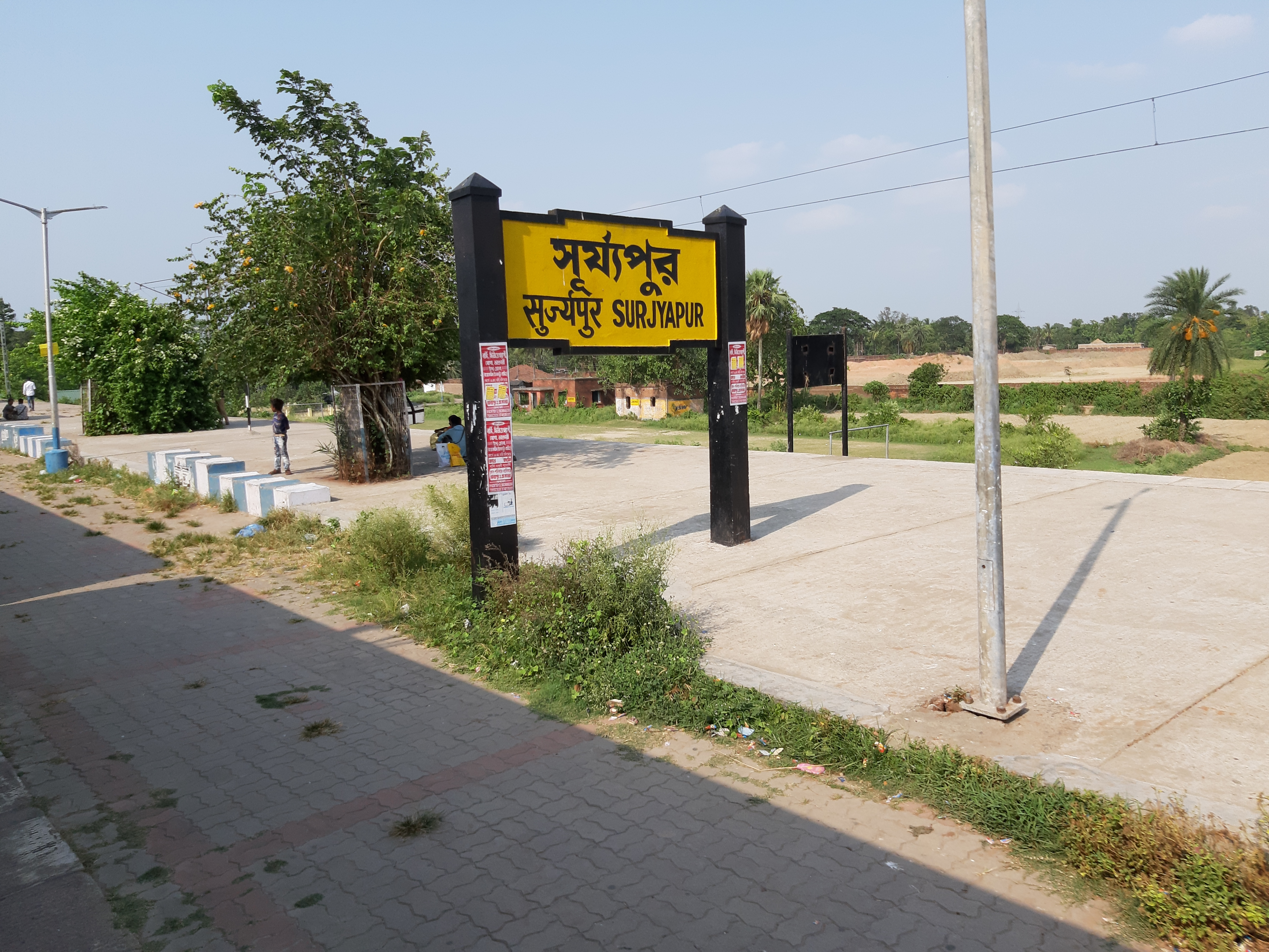 Railway stations of Sealdah south.Baruipur to Laxmikantapur South 24 parganas,West Bengal